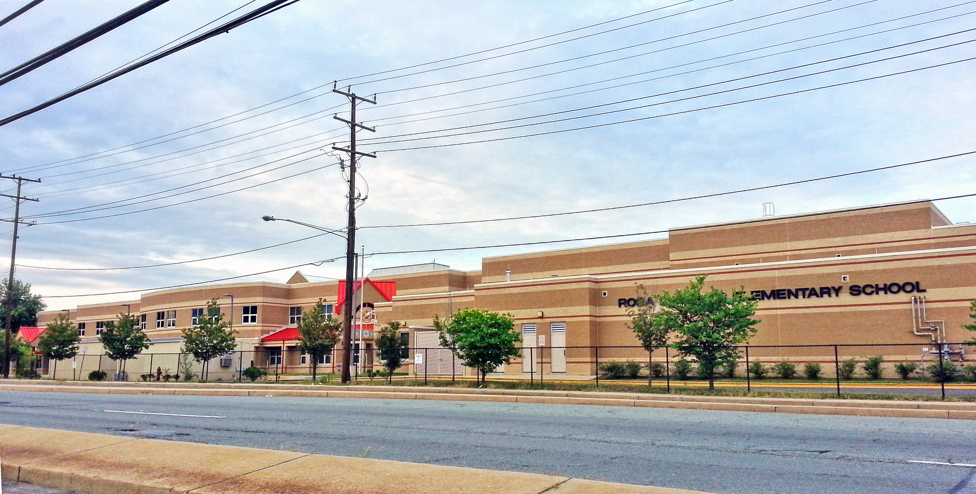 Front view of Rosa L. Parks Elementary School in the Chillum census-designated place, Maryland.